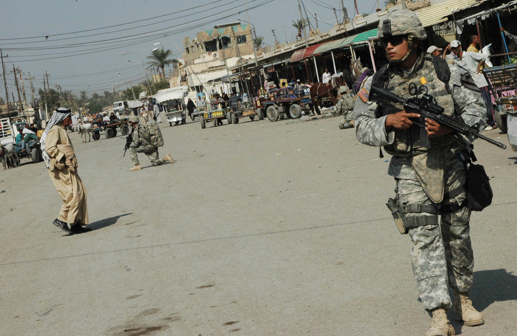 Spc. Jaime Martinez, a medic with the 3rd Brigade Combat Team, 1st Cavalry Division, commander's personal security detachment, conducts a patrol through the Old Baqubah market in Baqubah, Iraq, Oct. 21. Prior to Operations Arrowhead Ripper and Lightening Hammer, the city was virtually shut down due to widespread fear of extremist organizations.